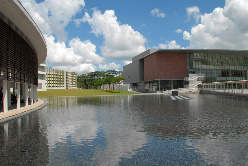 A reflecting pool in the Woodlands campus of Republic Polytechnic in Singapore.